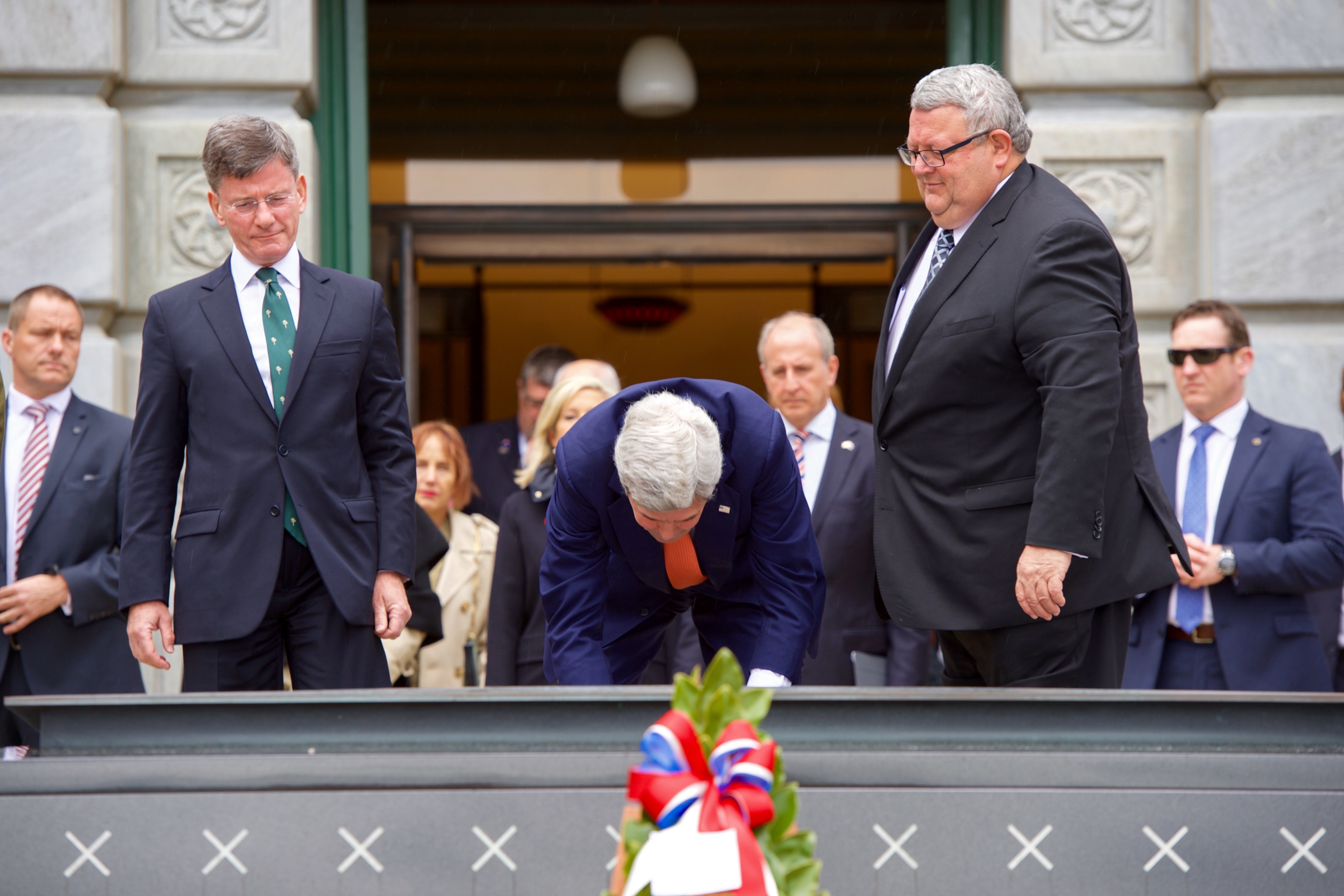 U.S. Secretary of State John Kerry, flanked by New Zealand Attorney-General Christopher Finlayson and Defense Secretary Gerry Brownlee, lays a frond at the Tomb of the Unknown Warrior at the Pukeahu National War Memorial Park at Anzac Square in Wellington, New Zealand, following the presentation of U.S. medals to members of New Zealand’s armed forces who served alongside American troops. [State Department Photo/ Public Domain]